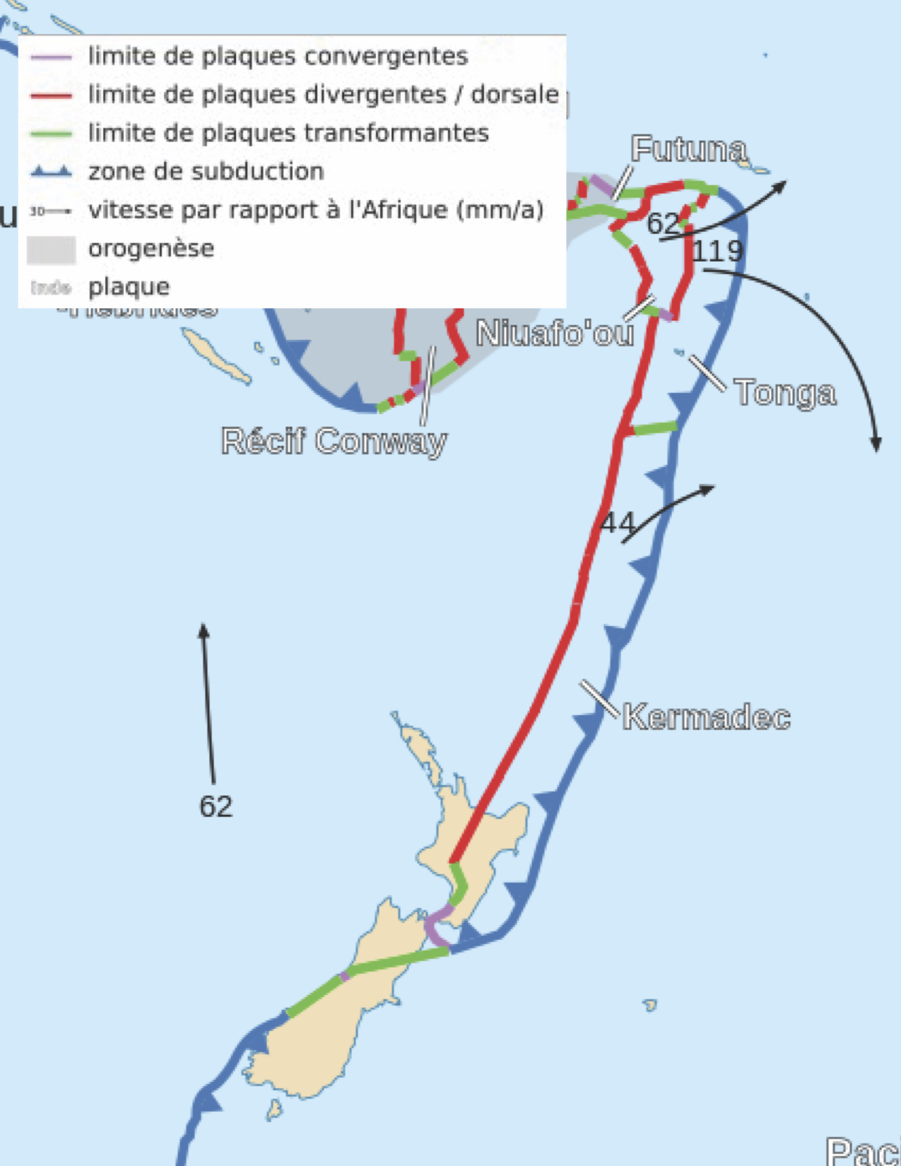 Map of the Kermadec and Tonga Plates with their movement vectors.